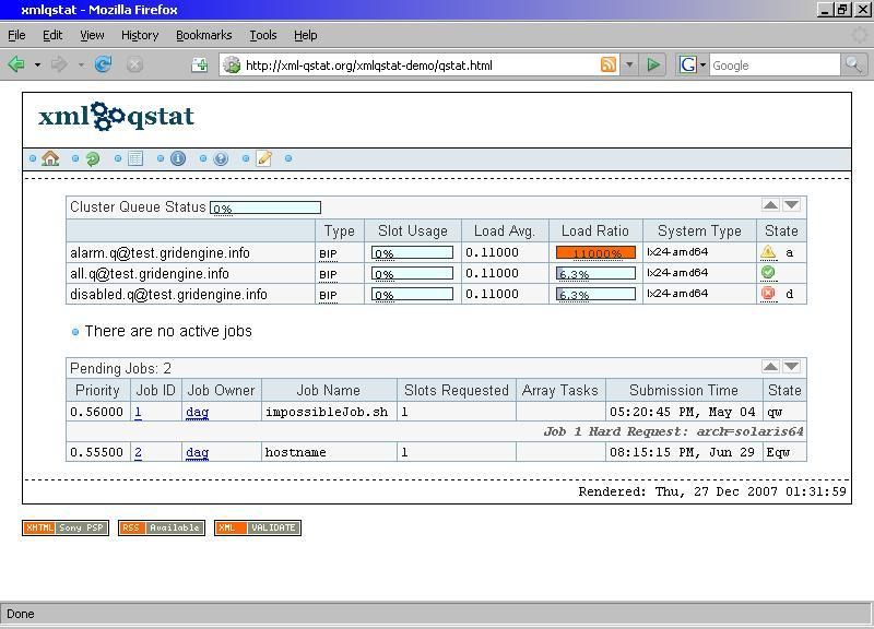 Mozilla Firefox 2.0.0.6 displaying the xml-qstat demo page